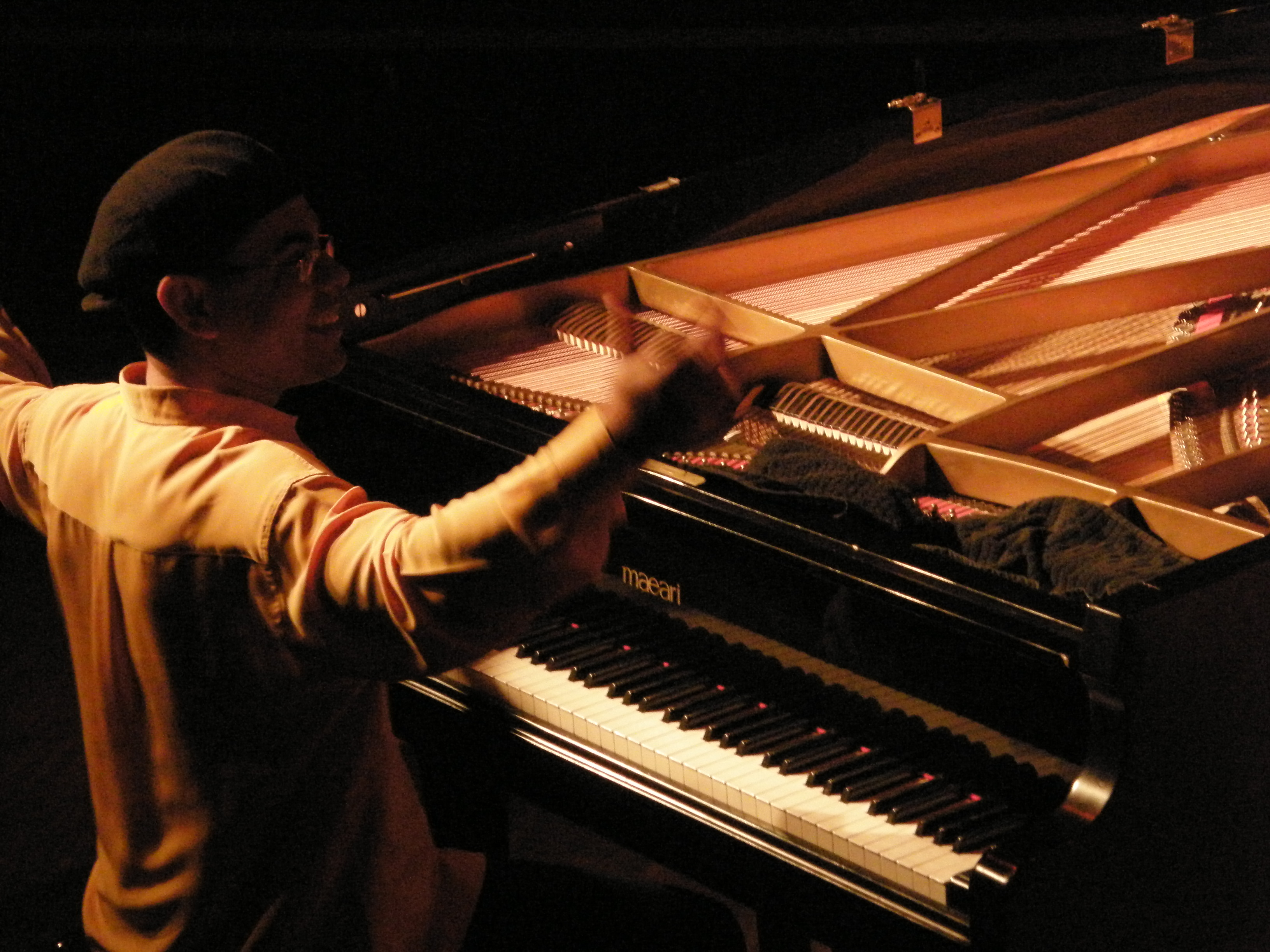 at Altes Pfandhaus